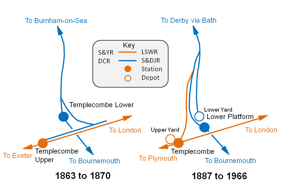 Diagrams showing changes to the railway junction at Templecombe, Somerset, England. The first junction faced eastwards but this meant an extra reversal to reach the upper station. In 1870 this was replaced by the west-facing junction, and in 1887 the Lower station was closed and replaced by a new platform further south.